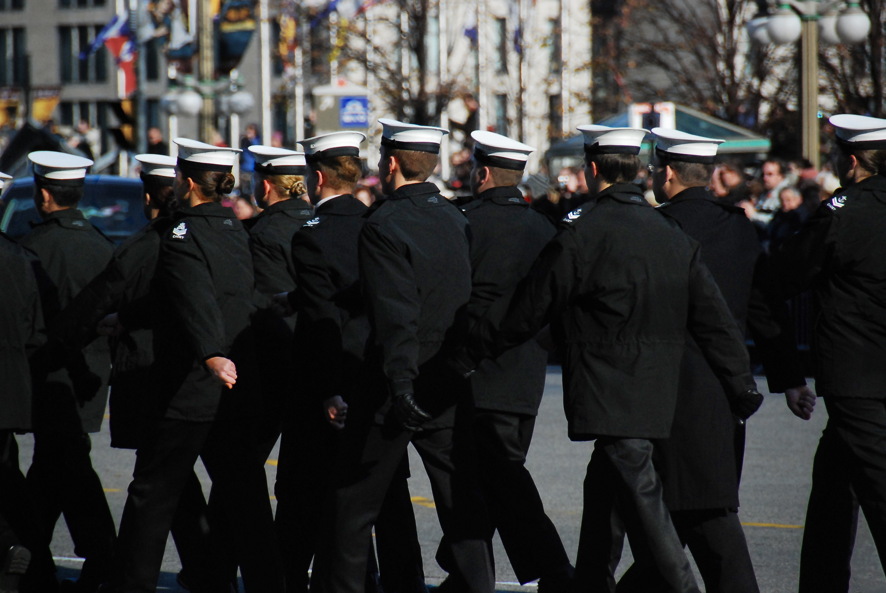 Members of the Royal Canadian Sea Cadets march to the National War Memorial during Remembrance Day ceremonies in Ottawa.